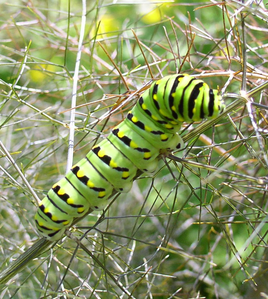 Papilio polyxenes (black swallowtail) on fennel. Churchville Nature Center, Bucks County, Pennsylvania, USA.